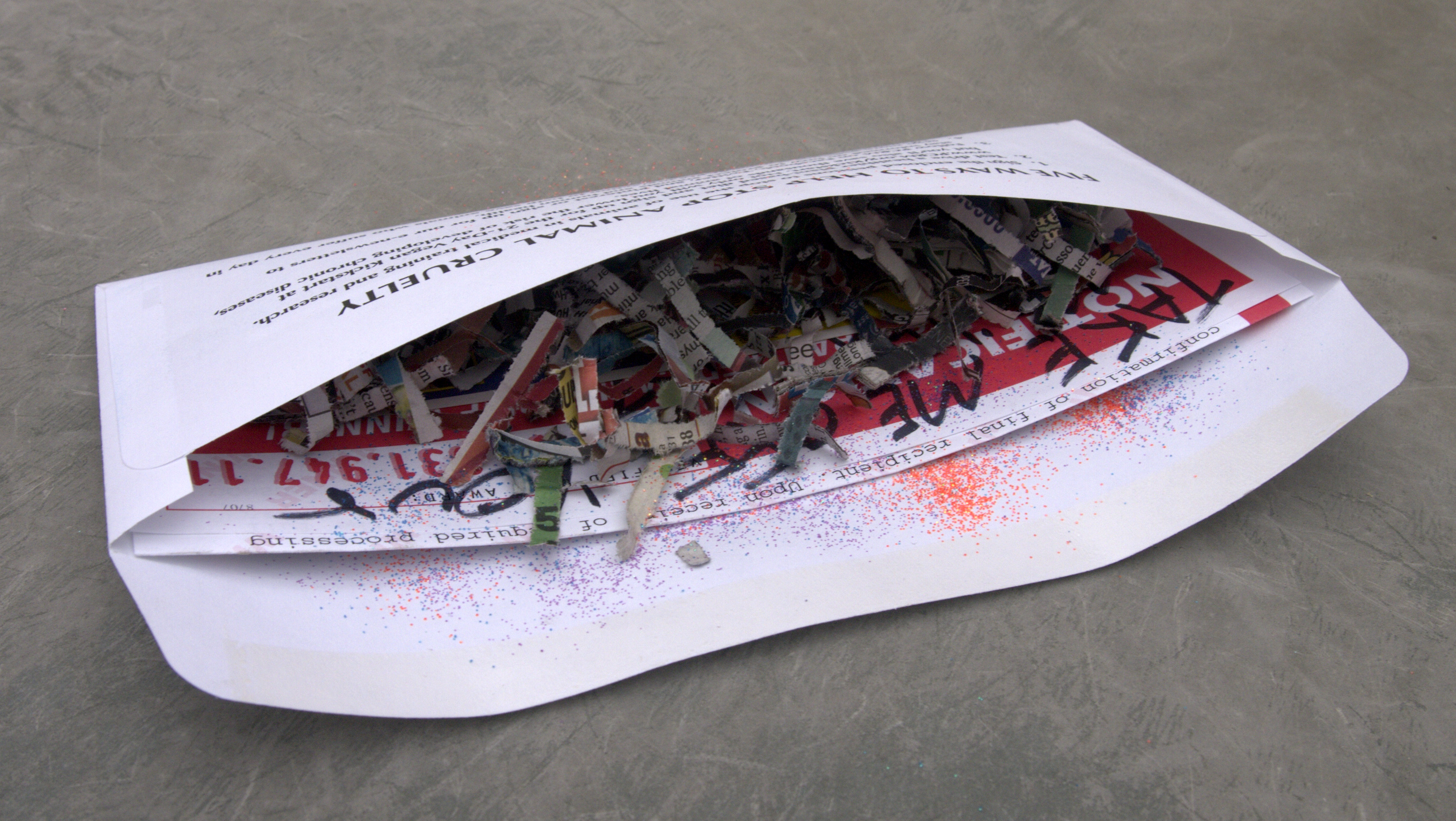 Read more about my adventures in junk mail